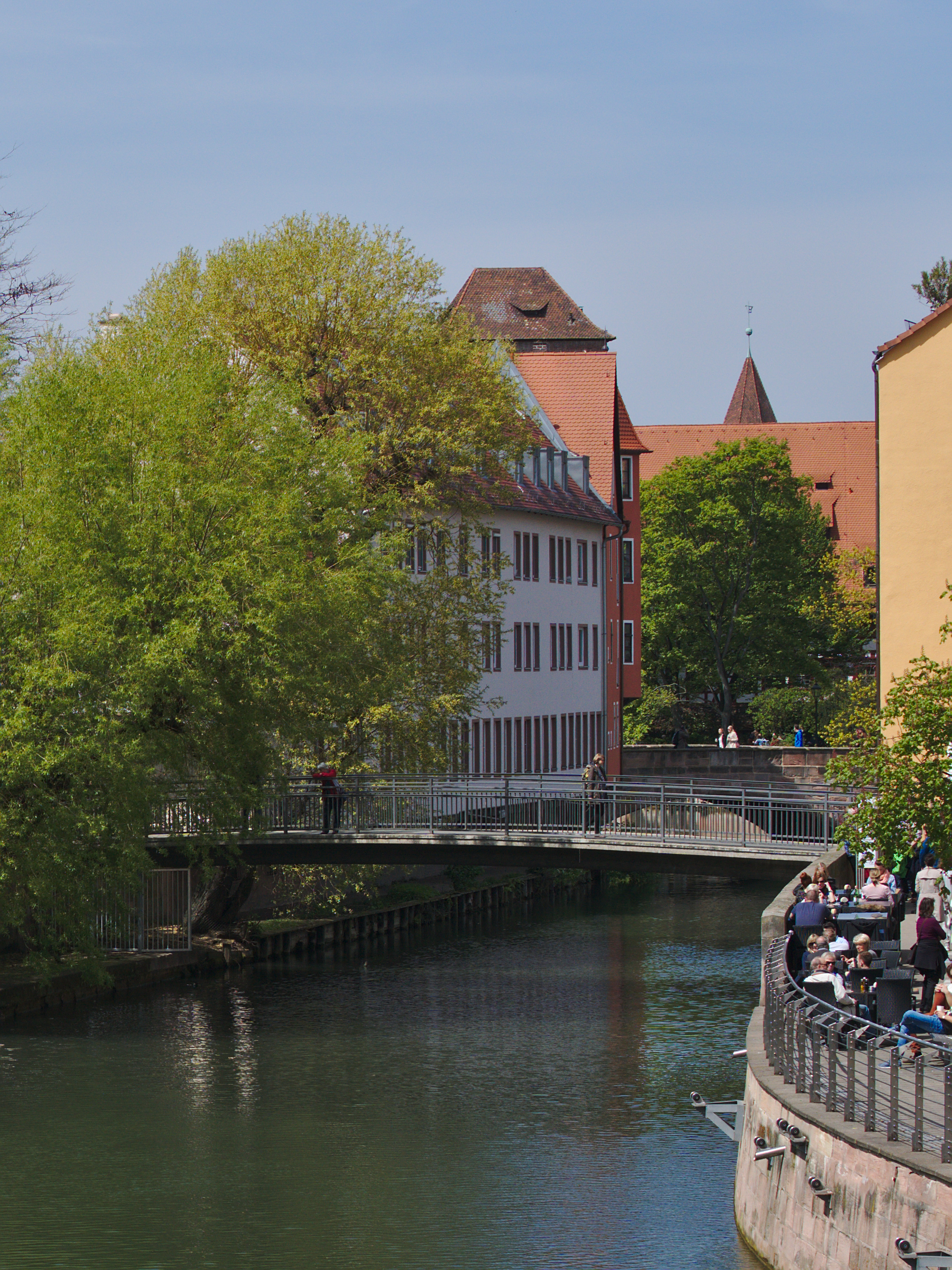 Schleifersteg bridge in Nürnberg, Germany as seen from Fleischbrücke.